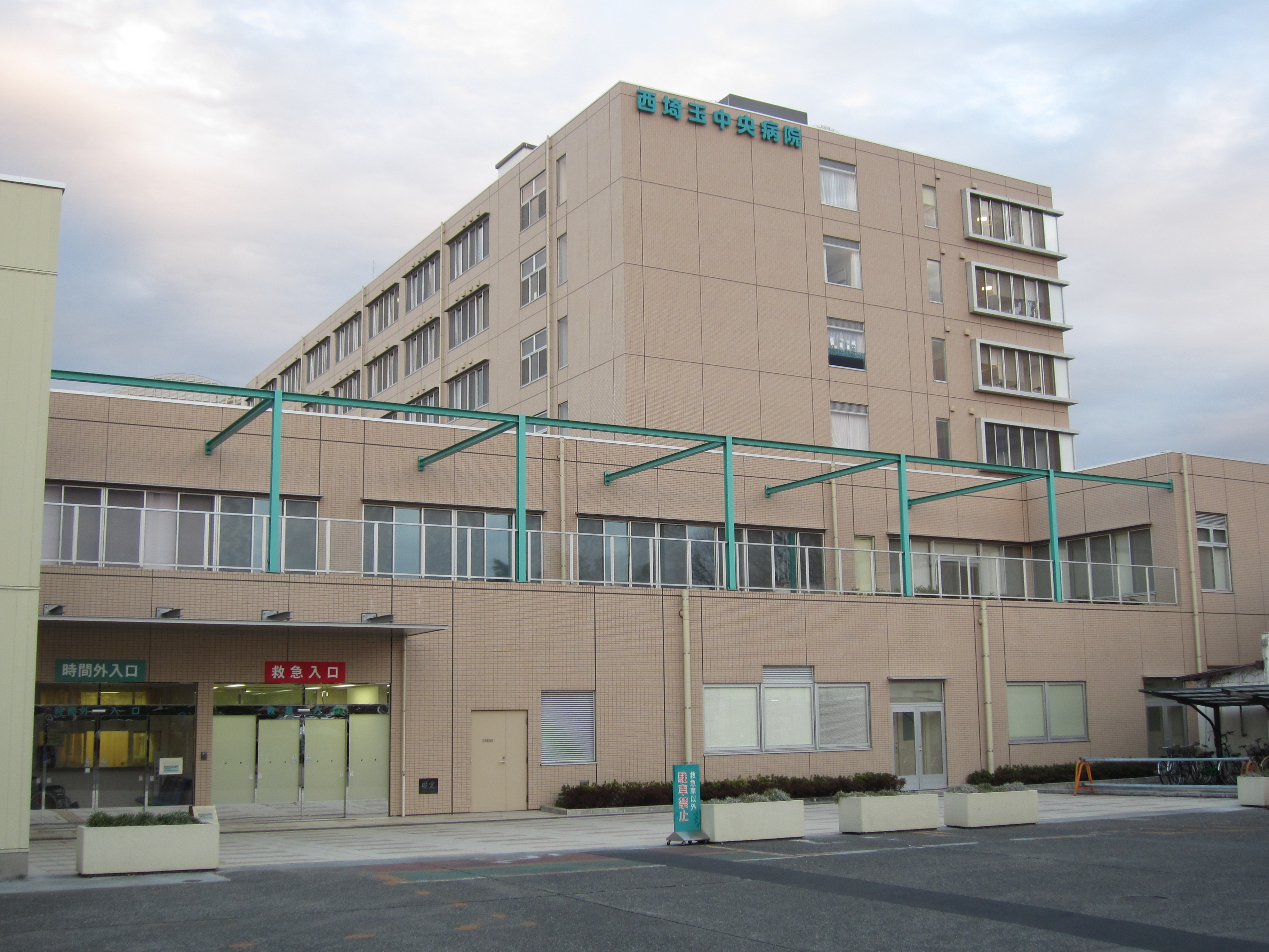 National Hospital Organization Nishisaitama Chuo National Hospital